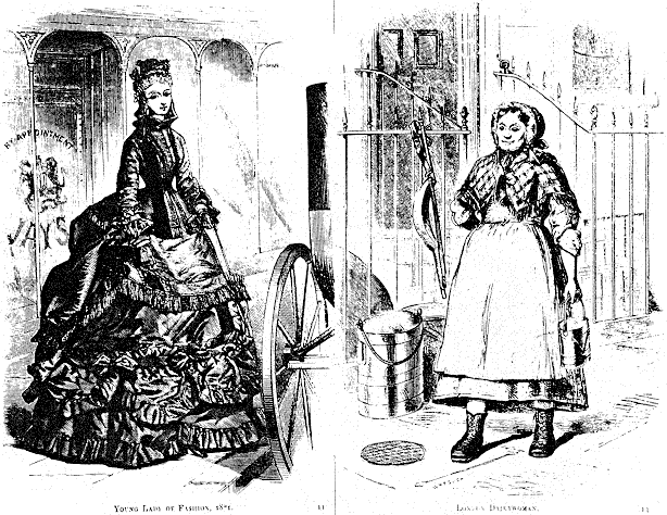 An extreme class contrast in women's attire, from the 1870s: On the left, "YOUNG LADY OF FASHION 1871" (who looks like she couldn't get back up unaided if she tipped over), and on the right "LONDON DAIRYWOMAN".